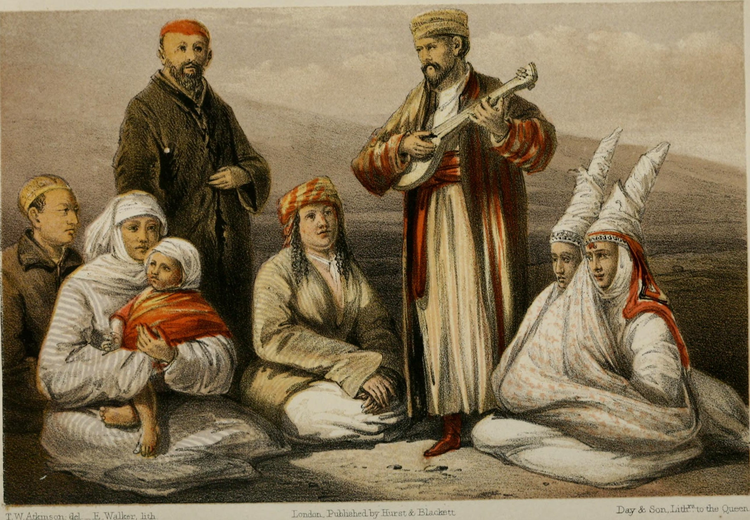 a group of Kirghiz